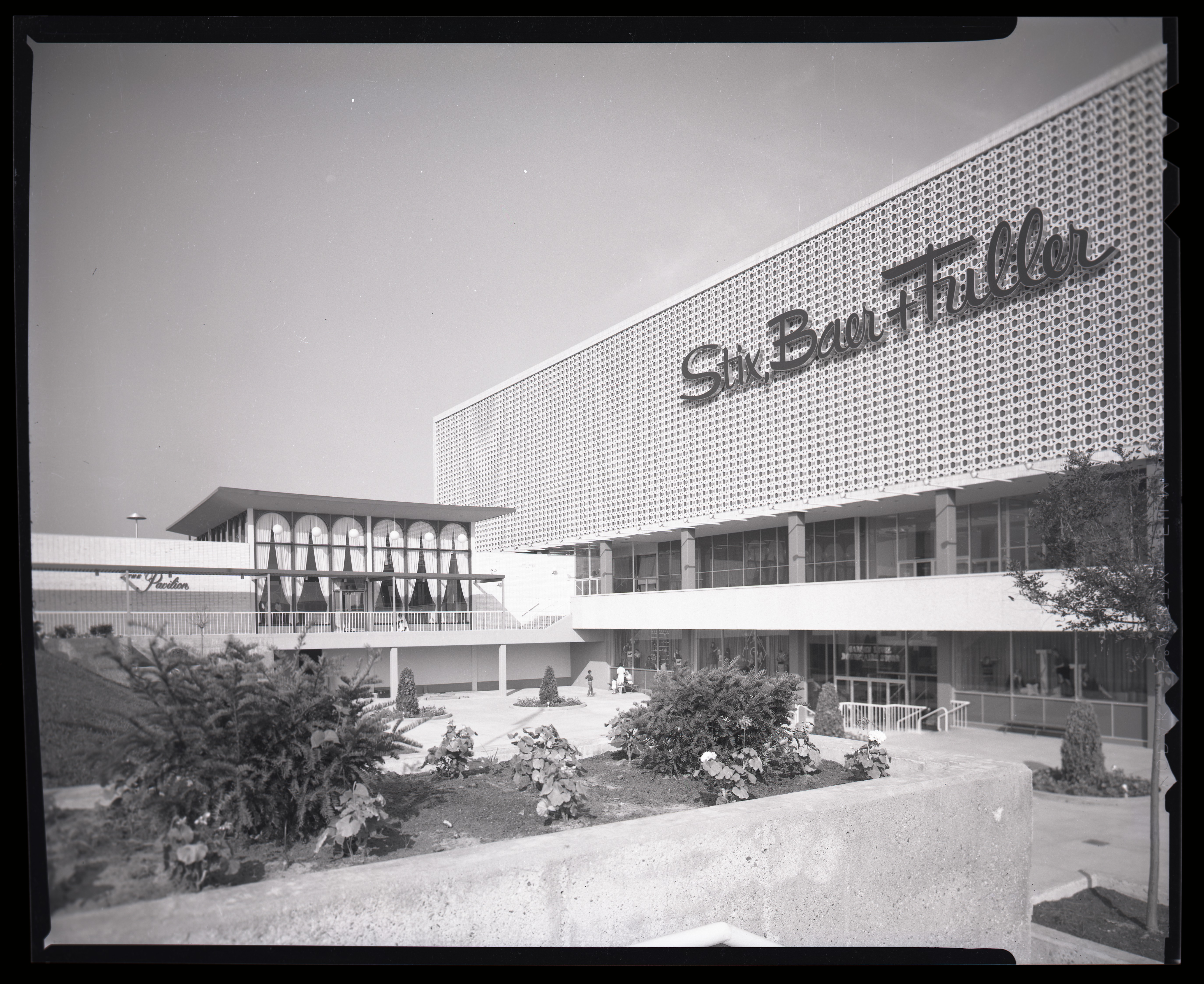 Stix, Baer, and Fuller at the River Roads Mall Negative by Mizuki, Henry T., 8/2/1961. Missouri History Museum Photograph and Prints collection. Mac Mizuki Photography Studio Collection. Image number: P0374-02319-17-4a